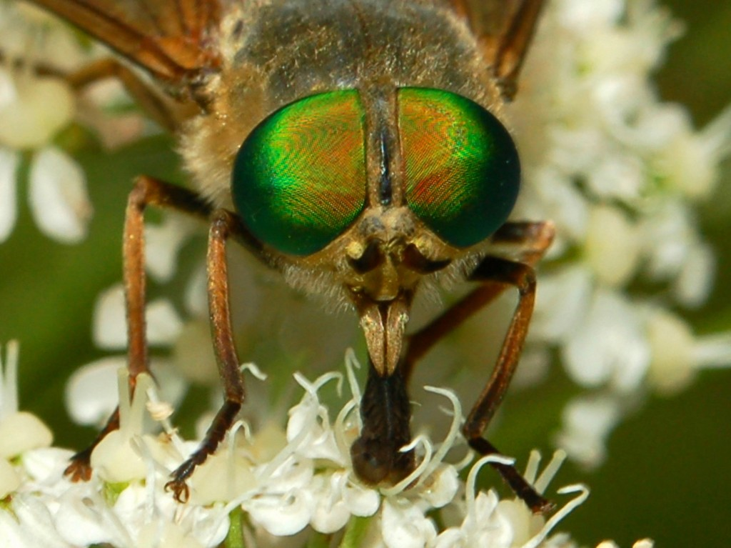 P. aprica